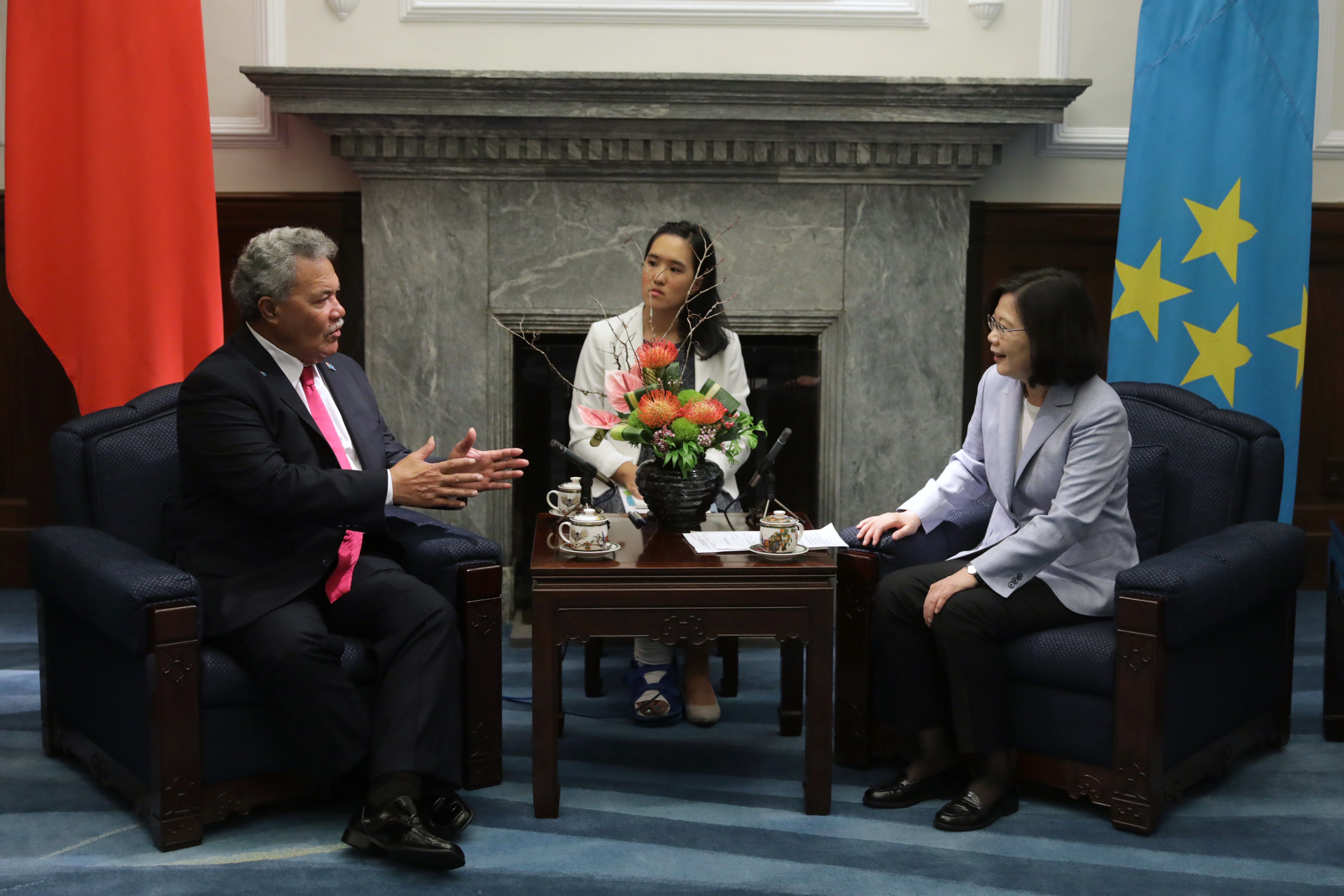 授權方式及範圍：中華民國總統府│政府網站資料開放宣告 Authorization Method & Scope: Office of the President, Republic of China (Taiwan) | Government Website Open Information Announcement